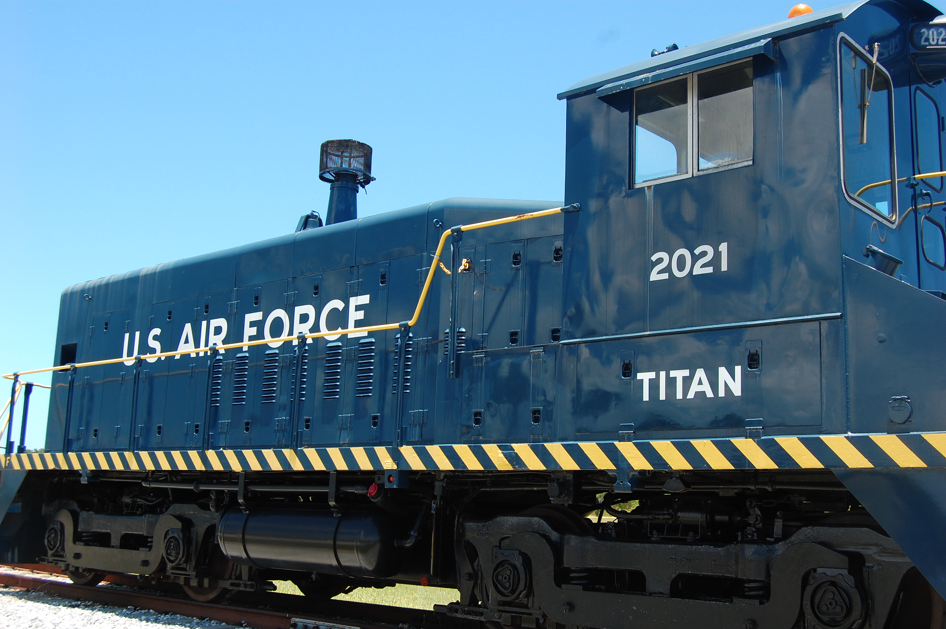 EMD SW8 switching engine